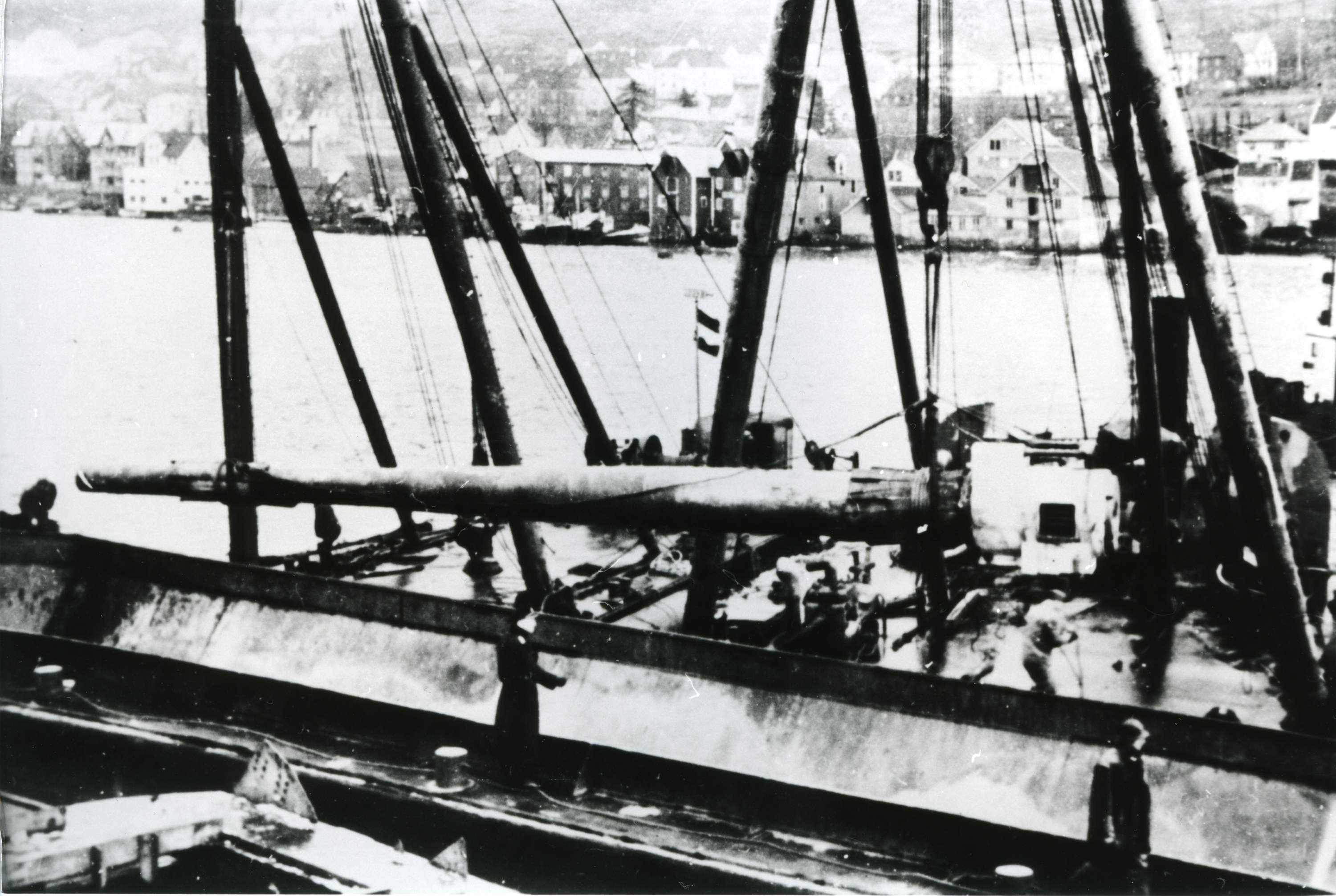 One of the three gun barrels mounted in a triple turret (B turret) from the battleship "Gneisenau". The B turret was mounted at Sotra, outside Bergen, Norway, after "Gneisenau" was damaged in an air raid attack in 1942. The main armament (nine 28,3 cm guns in triple towers) were removed and placed as coastal defence in Norway (Austrått and Fjell) and in Holland. This photo shows one of the barrels being unloaded in Bergen (at Dokken), Norway, before shipping to Sotra and hauled up to the coastal fortress being constructed.